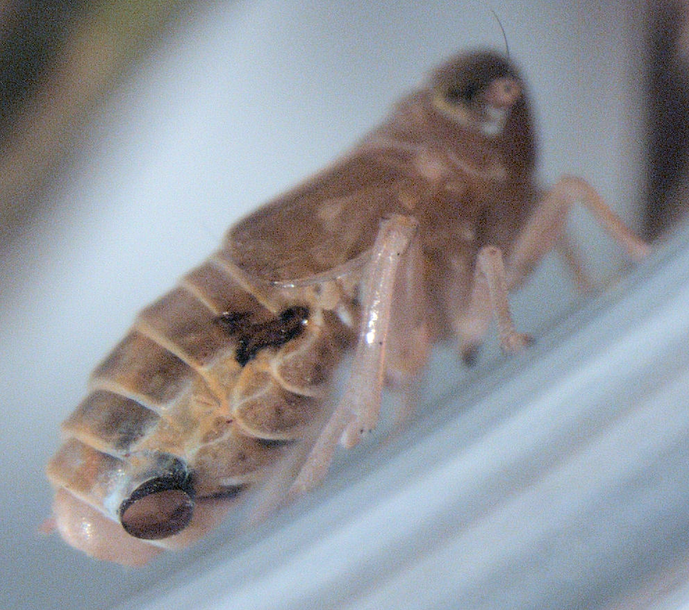 indet. delphacid stylopised by Elenchus maoricus (empty male puparium)